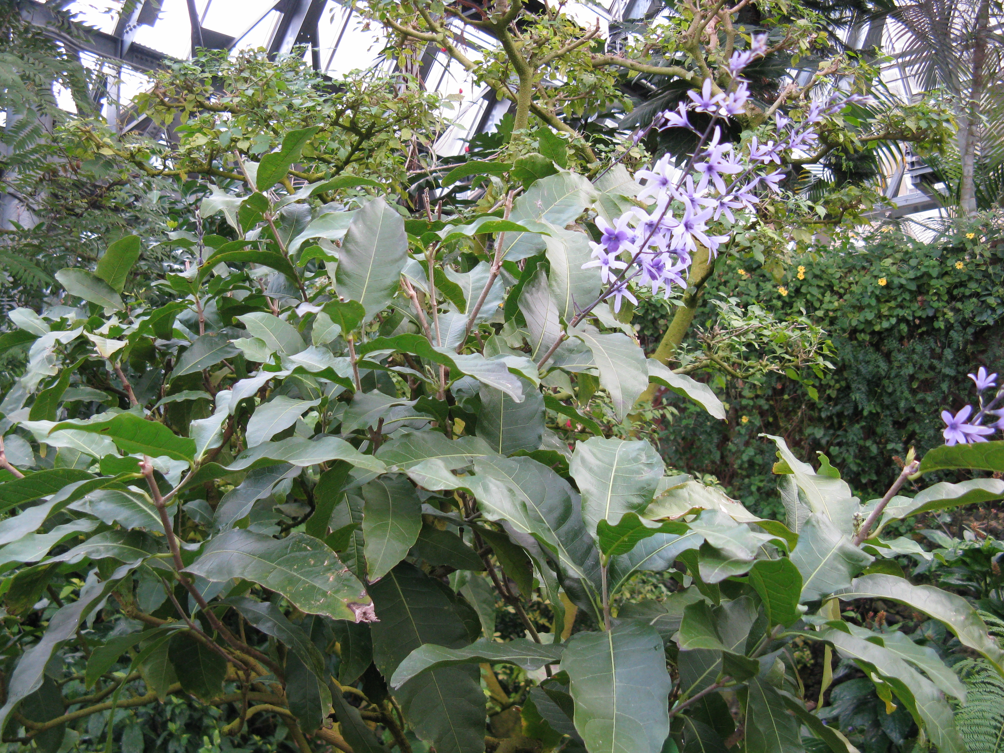 Petrea volubilis Place:Osaka Prefectural Flower Garden,Osaka,Japan